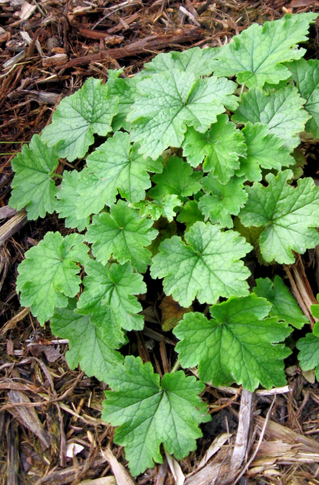 Tellima grandiflora